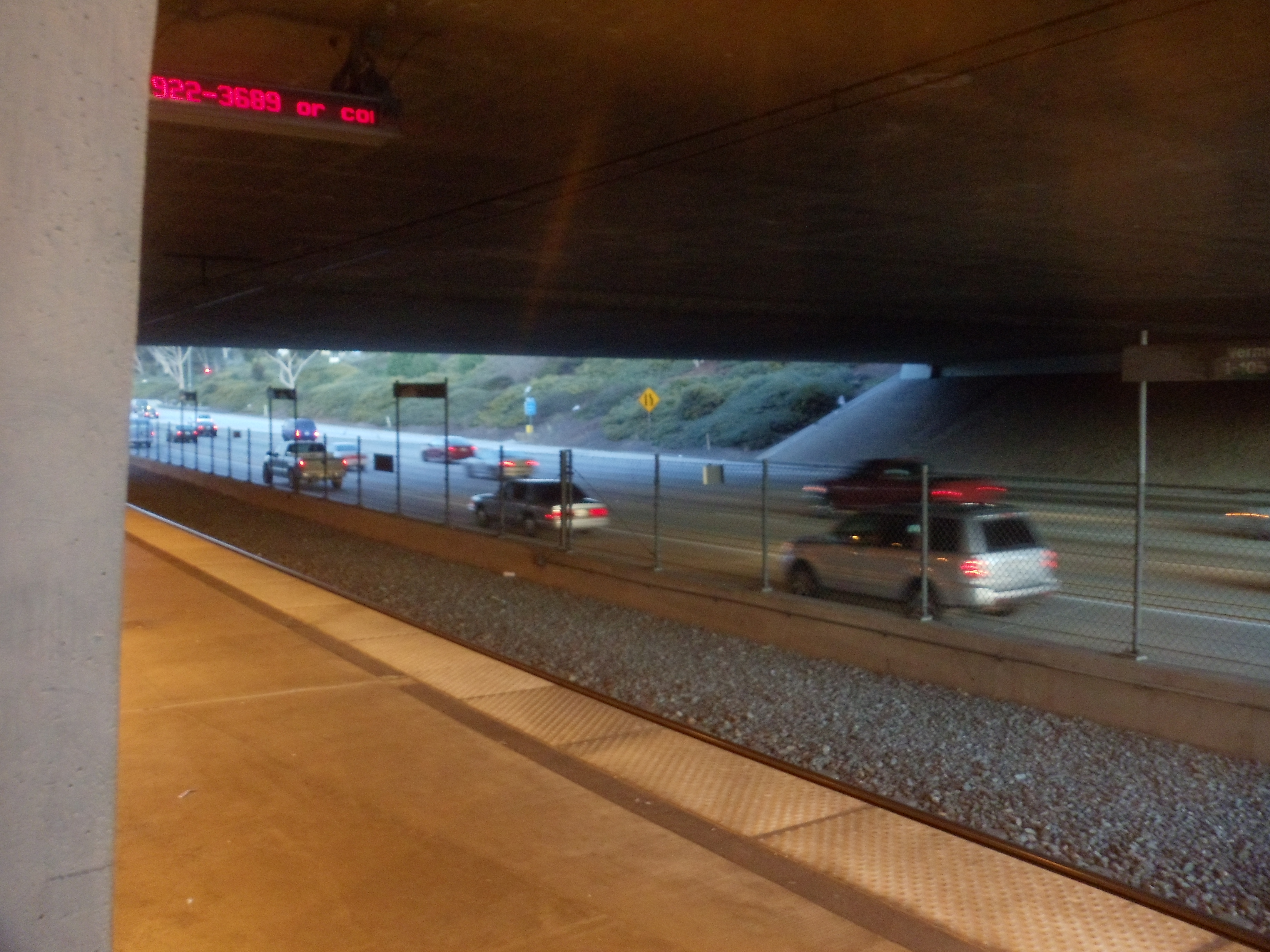 Westbound platform.